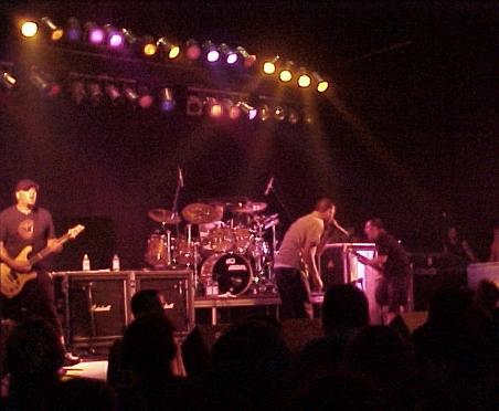 Alien Ant Farm in Milwaukee, Wisconsin (07/13/2001)